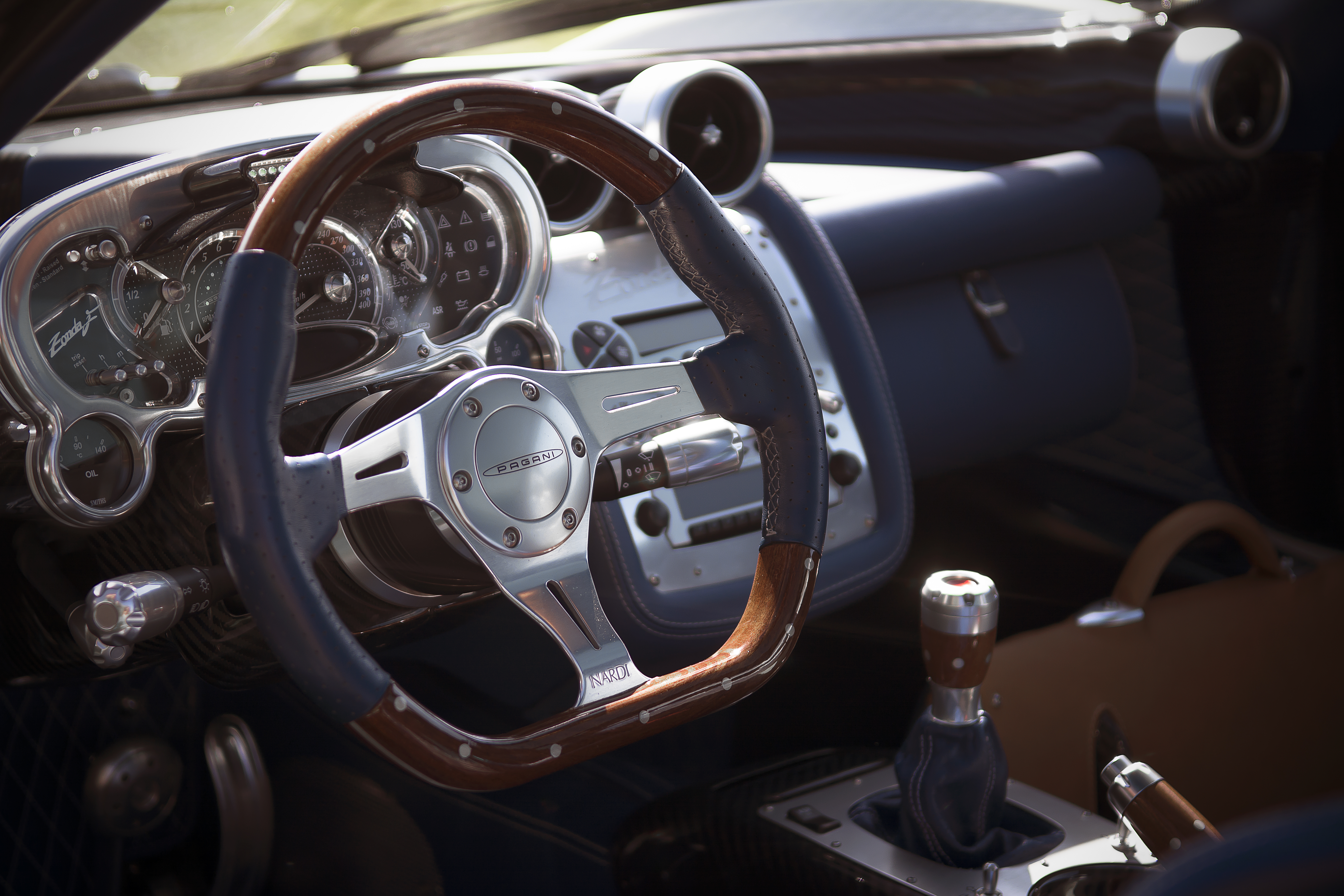 The interior on Horacio's Pagani Zonda F seen at The Quail in Carmel CA (Monterey Car Week 2014). (cc) Creative Commons Personal and Commercial with Attribution. If you use this photo make sure you source with a link back to my site at